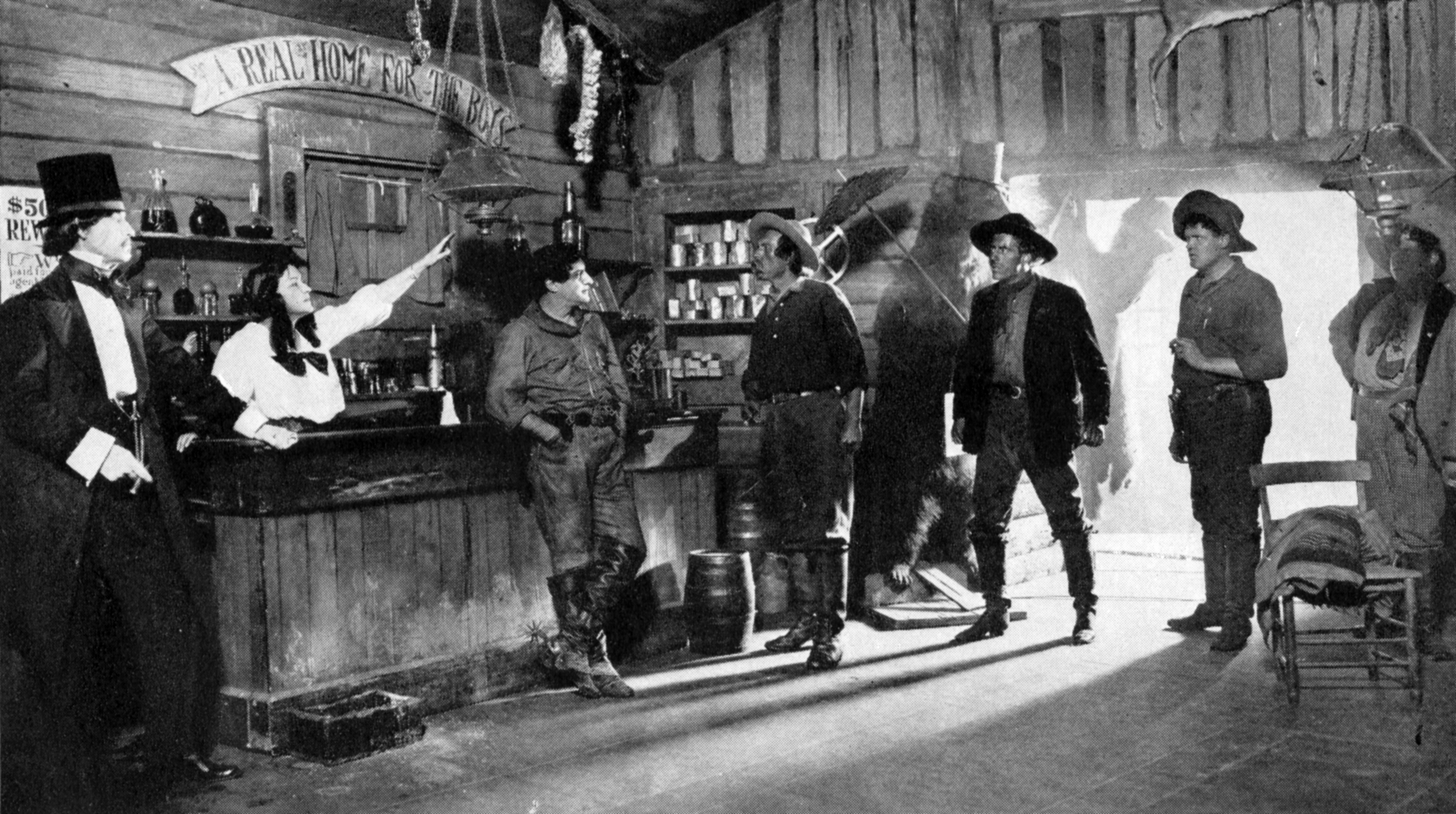 Photograph of the Broadway production of The Girl of the Golden West Caption reads as follows:"The Girl of the Golden West" tends her own bart at the Belasco. The girl is Miss Blanche Bates. The gambler, on the left, is Mr. Frank Keenan. The outlaw, third from left, is Mr. Robert Hilliard.